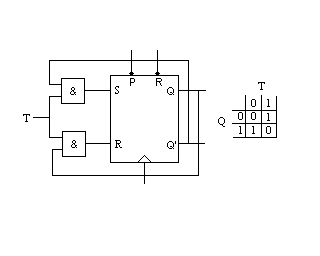 T-type Flip/Flop